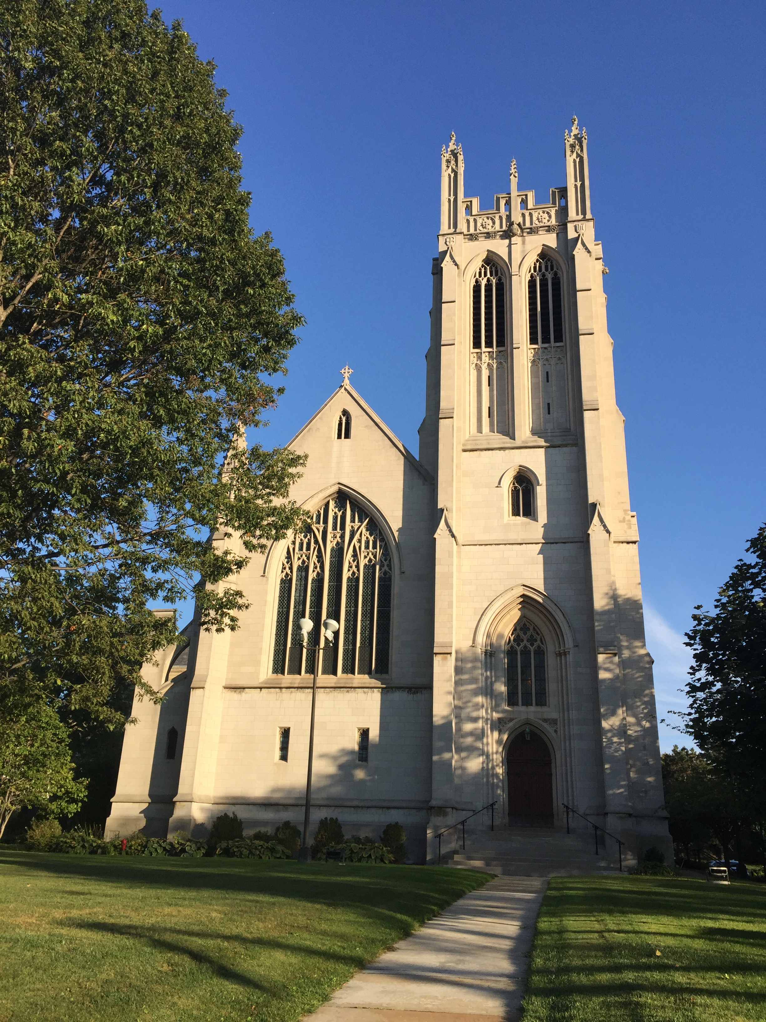 Amasa Stone Chapel Case Western Reserve University Circle 1911 Clara Hay and Flora Stone Mather